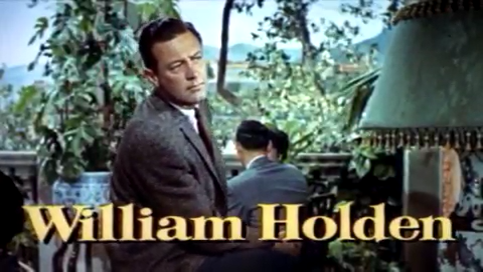 William Holden in Love Is A Many Splendored Thing, Henry King 1955